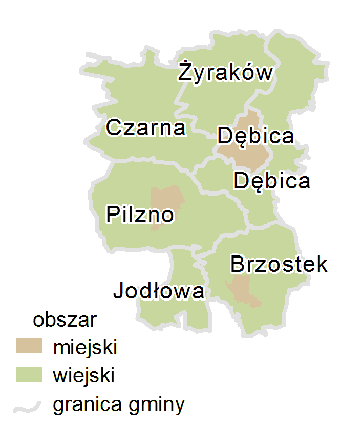 Subcarpathian Voivodeship - dębicki county gminas